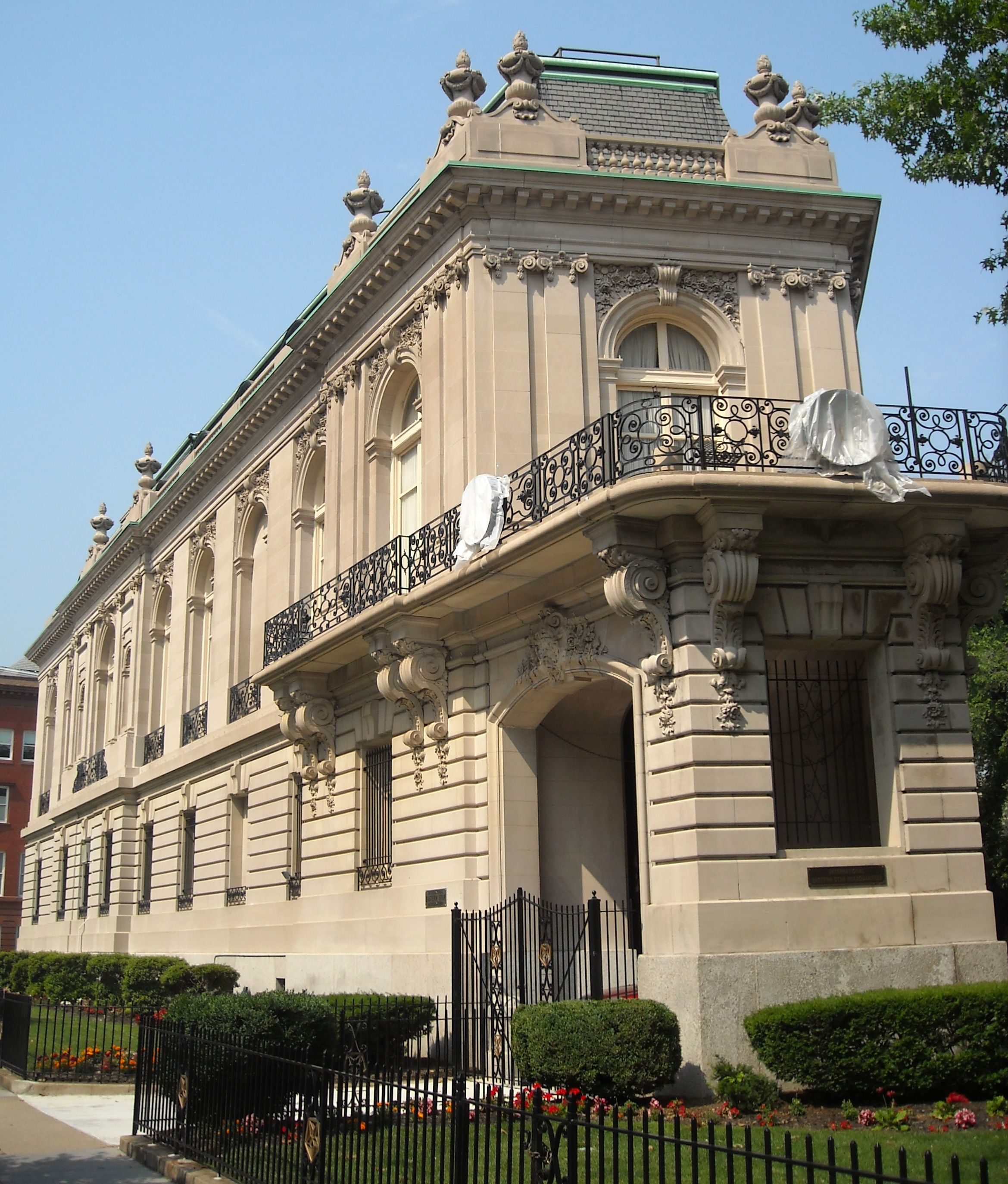 Perry Belmont mansion in Washington, D.C. The building is listed on the National Register of Historic Places.